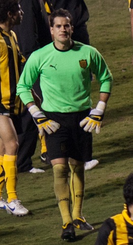 Sebastian Sosa after the 2011 Copa Libertadores final, which he played for Peñarol.